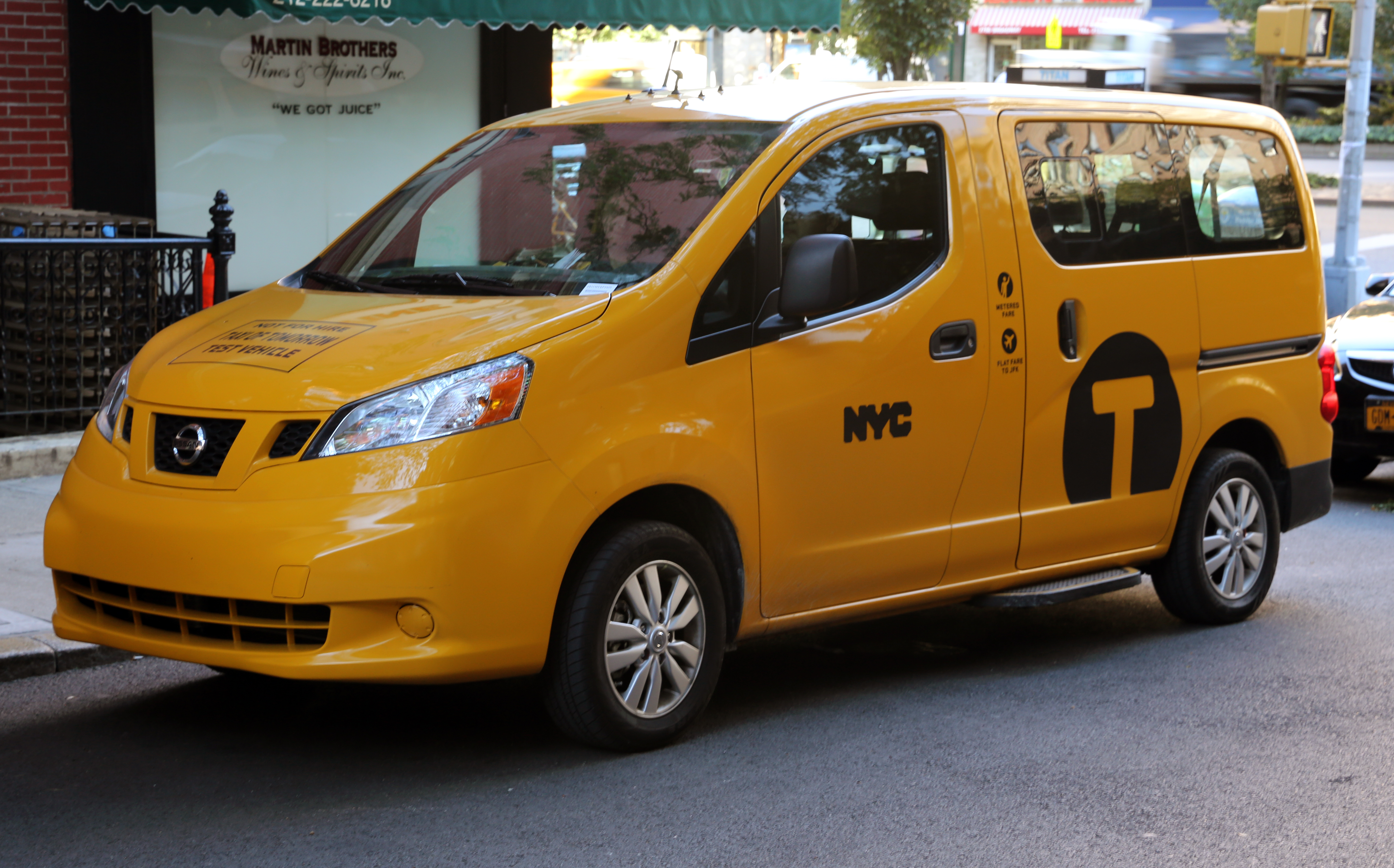 That is to say, a Nissan NV200 undergoing tests. This is the third one I see this year.